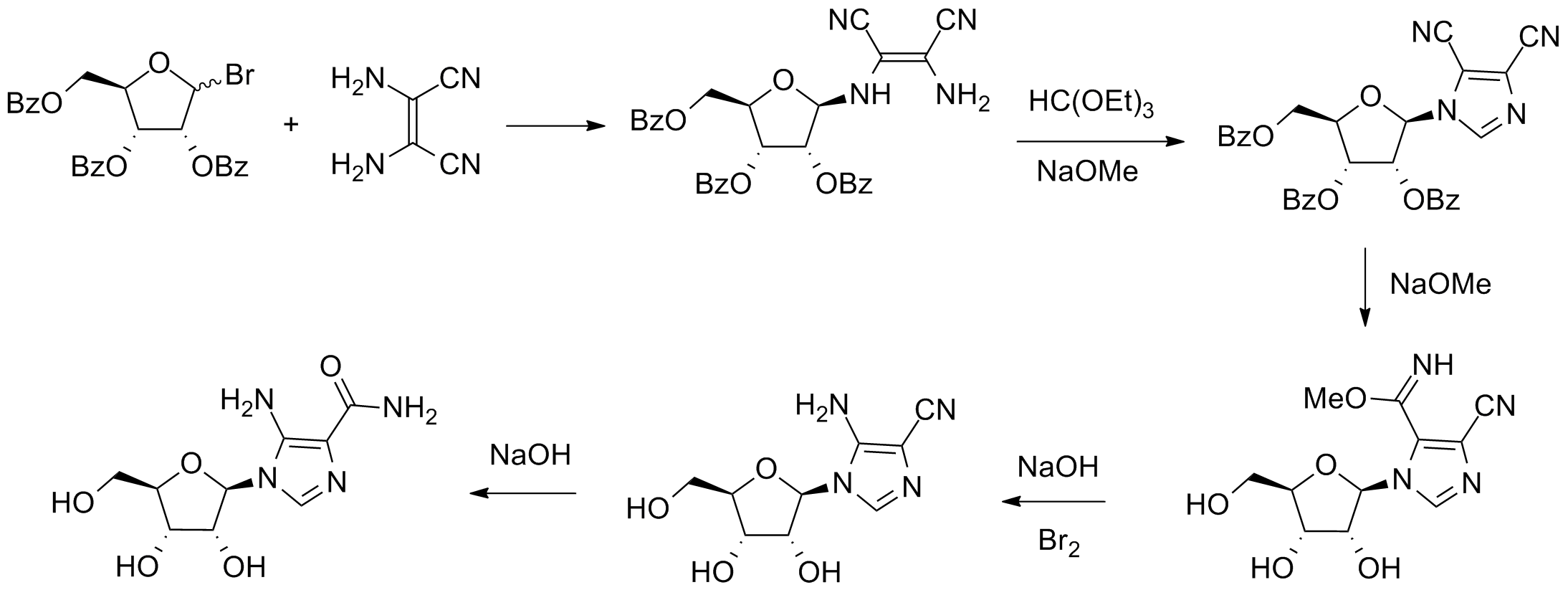 i drew this anyone can use it